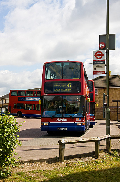 Terminus For The 43, near to Friern Barnet, Barnet, Great Britain. On Friern Barnet Road, between Martock Gardens and Shapwick Close. VP495, a Volvo with Plaxton body, prepares to depart for London Bridge Station. A long route, often affected by traffic congestion, there were 30 vehicles allocated to this service on weekdays in 2005 - info from London Bus Routes at Link